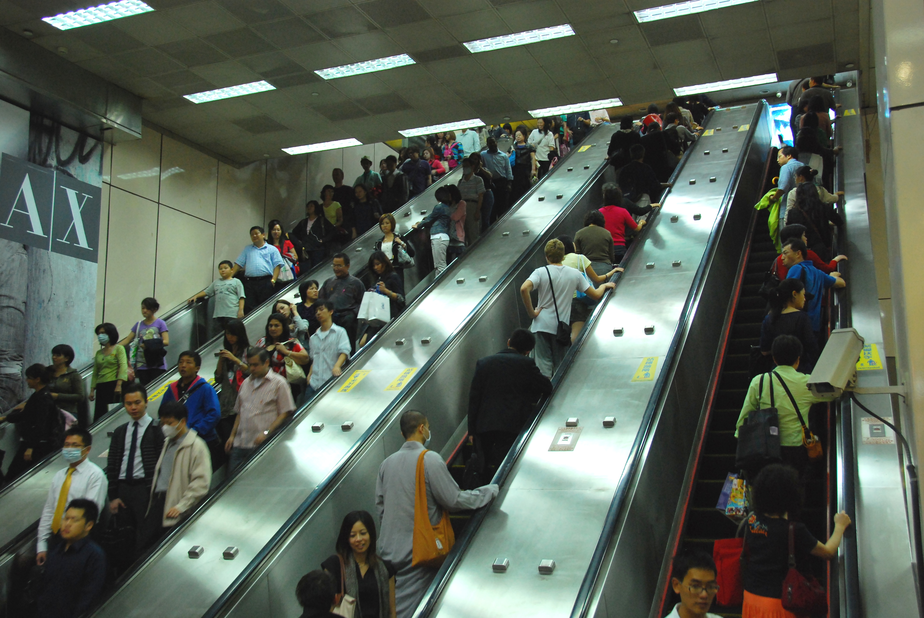 Escalators connecting the Mucha Neihu Line and the Bannan Line Concourse in Zhongxiao Fuxing Station of the Taipei MRT system